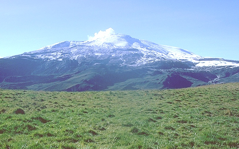 Colombia's Nevado del Ruiz volcano, almost two weeks after its deadly eruption in 1985. Viewed from the northeast.